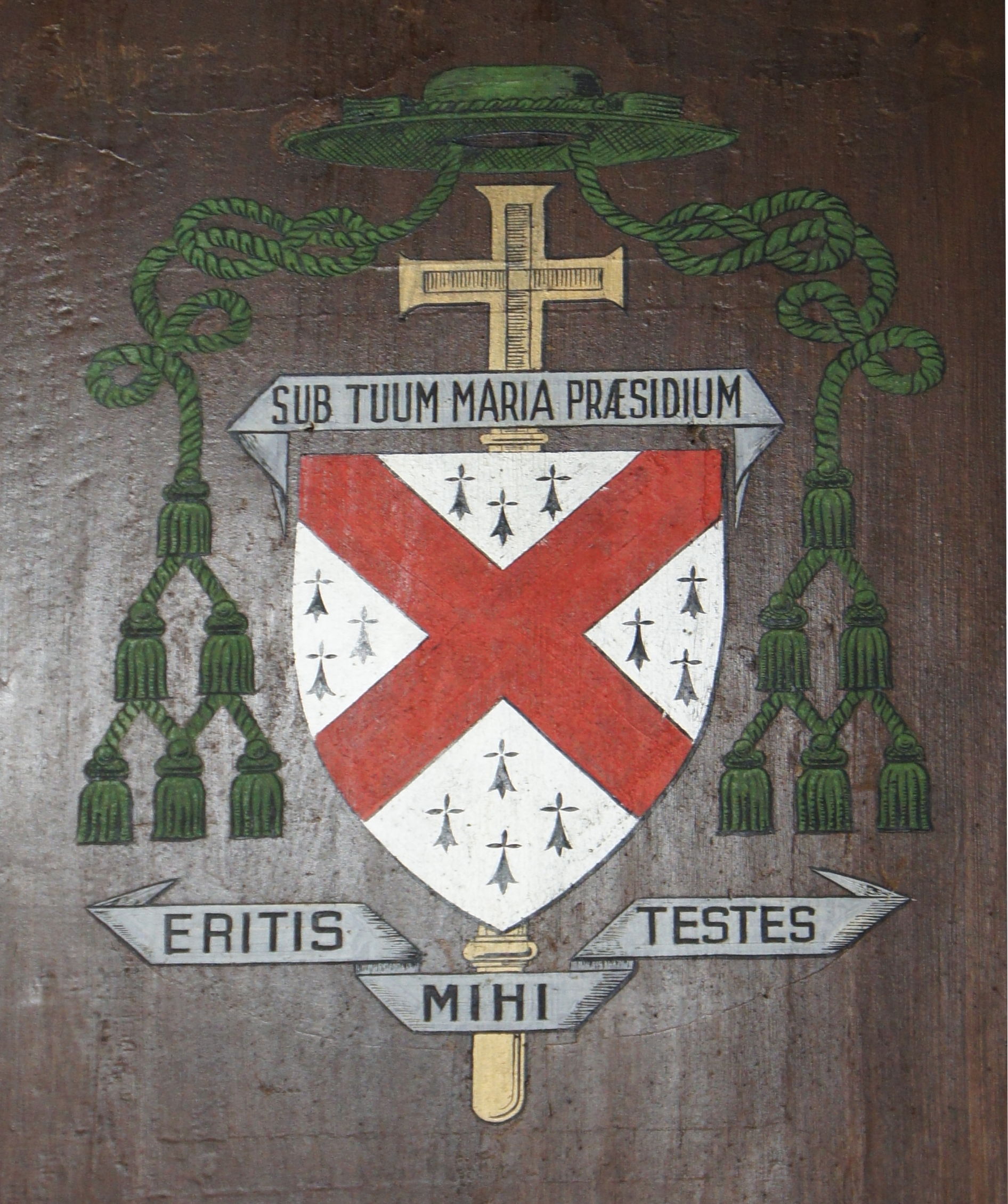 Ecclesiastical heraldry of Pont-n'Abad, Brittany.